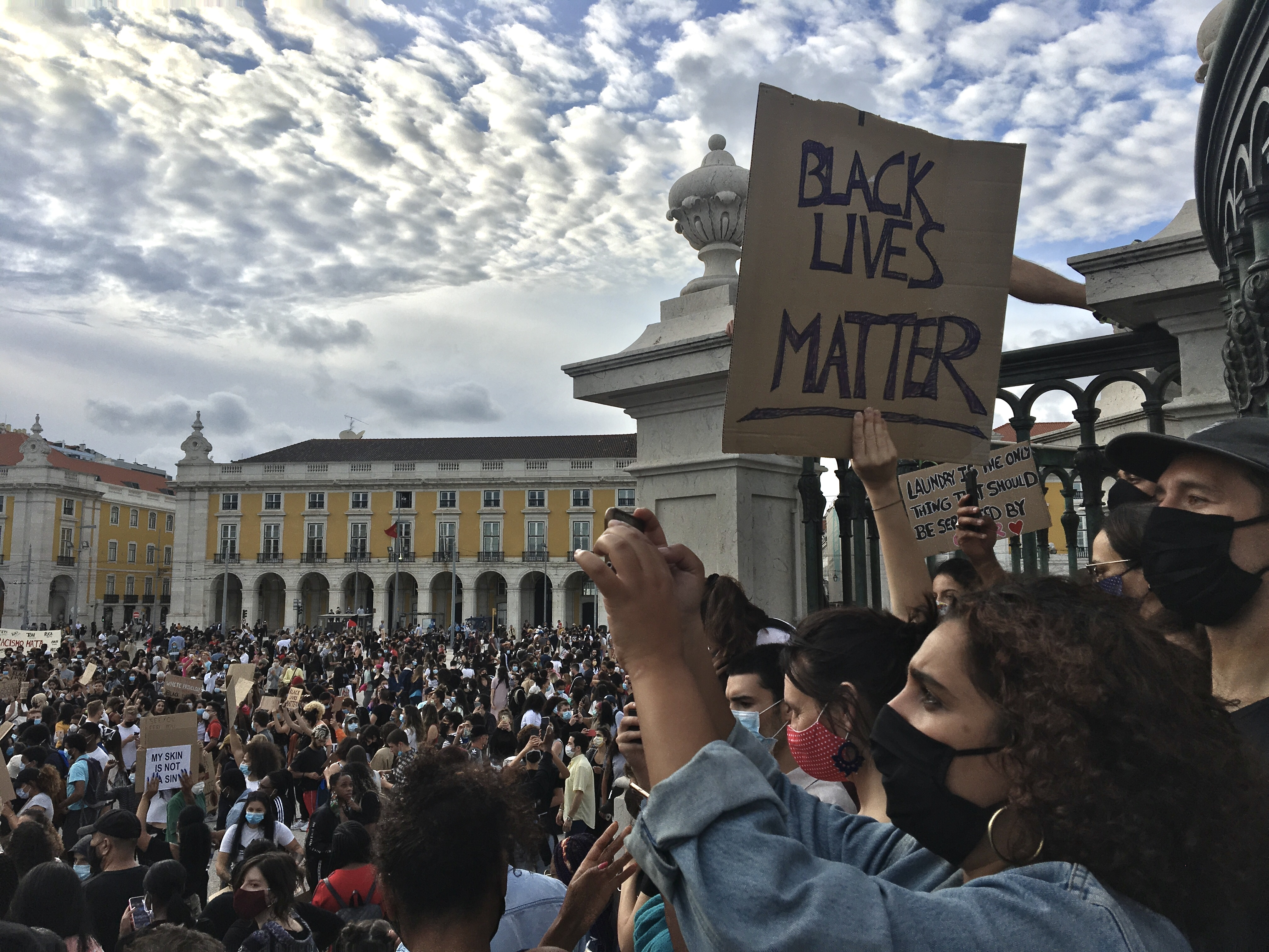 On June 6, in Lisbon, 5000 people gathered in Alameda and marched down Almirante Reis Ave in a peaceful manner to protest against the killing of George Floyd and for the Black Lives Matter movement, remembering the portuguese victims of police brutality and racism since the 90's. This photo was taken at the end of the demonstration, in Terreiro do Paço.